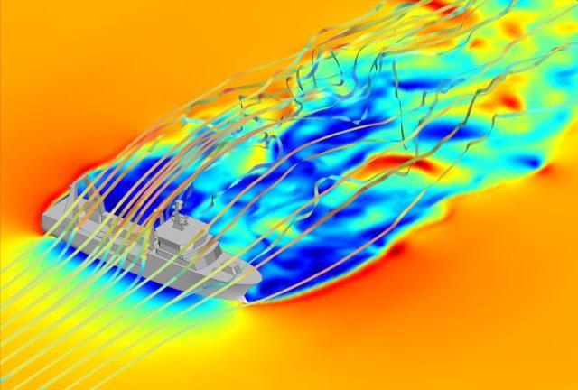 air flow around RV Tangaroa (computed with Gerris)